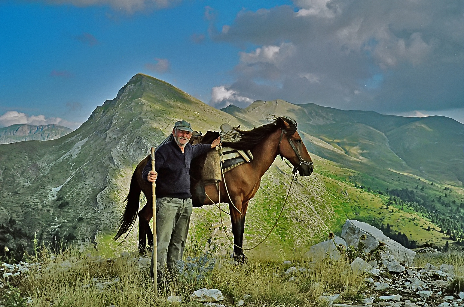 HDR fom a single jpg made in Photoshop. This is a photo that my friend took. On a photo is a sheepherder, the man-legend in Aspropotamos. The horse is Pindos poni breed for those who are interested in horses. The best and the strongest horses I ve ever seen!